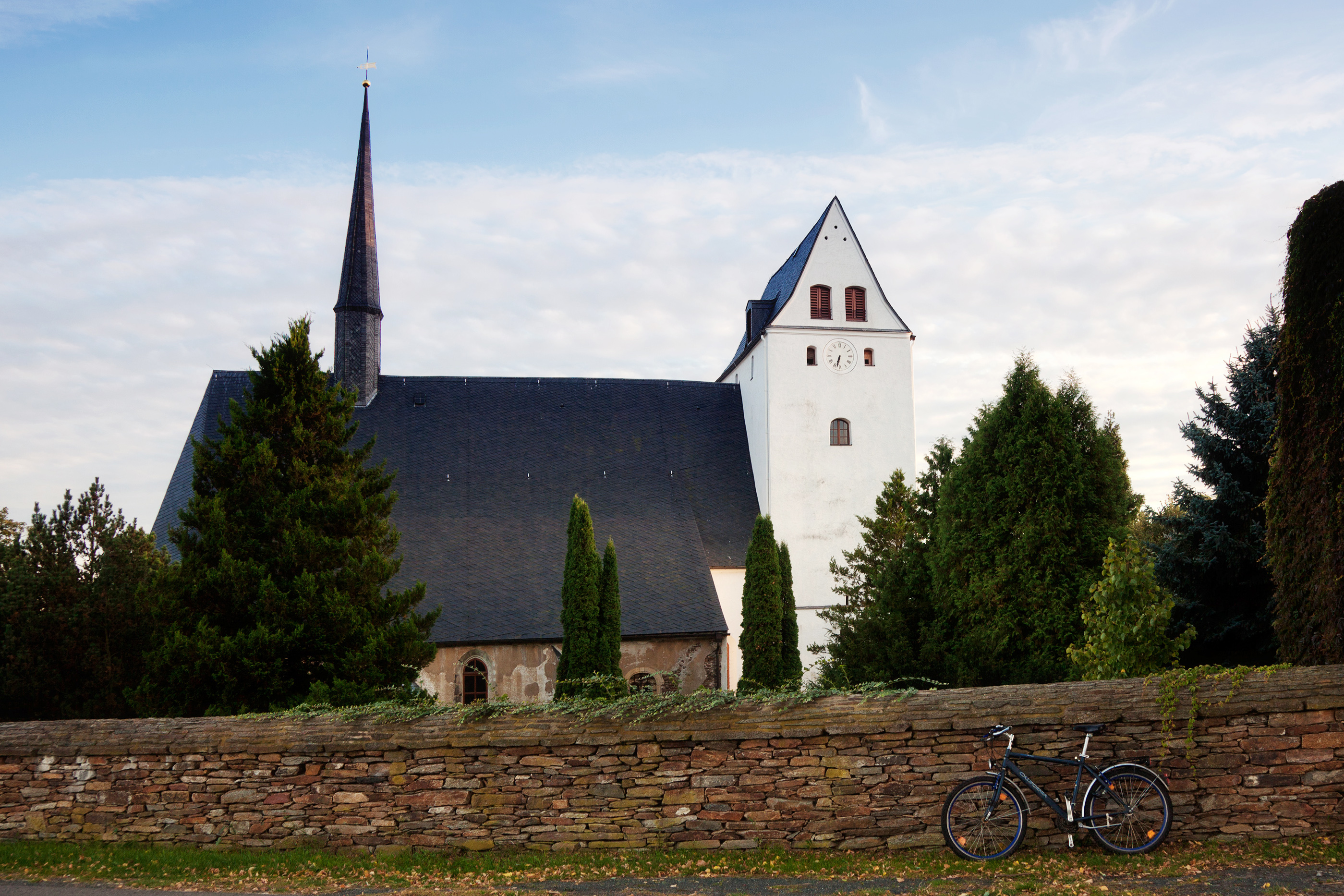 Langhennersdorf, St. Nicholas Church